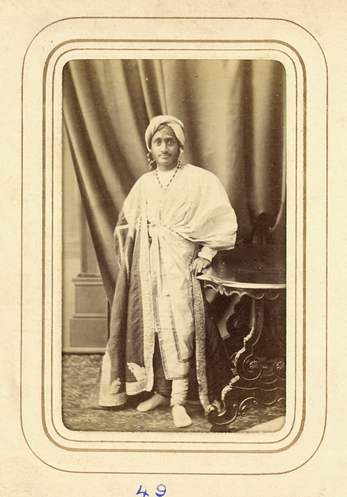 Full-length standing carte-de-visite portrait of Bijay Sen (1846-1902), Raja of Mandi from the 'Album of cartes de visite portraits of Indian rulers and notables' by Bourne and Shepherd, early 1870s.